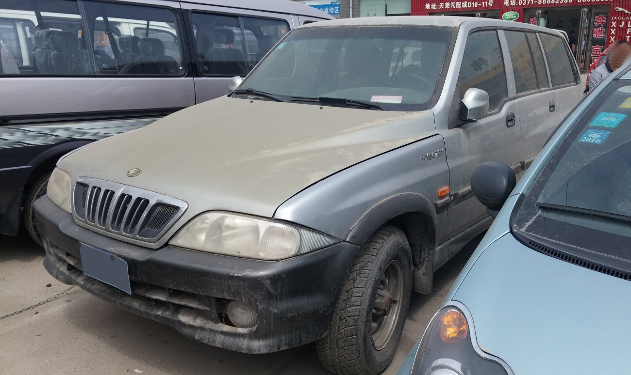 Dadi Musso RX6470 photographed in Zhengzhou, Henan province, China.